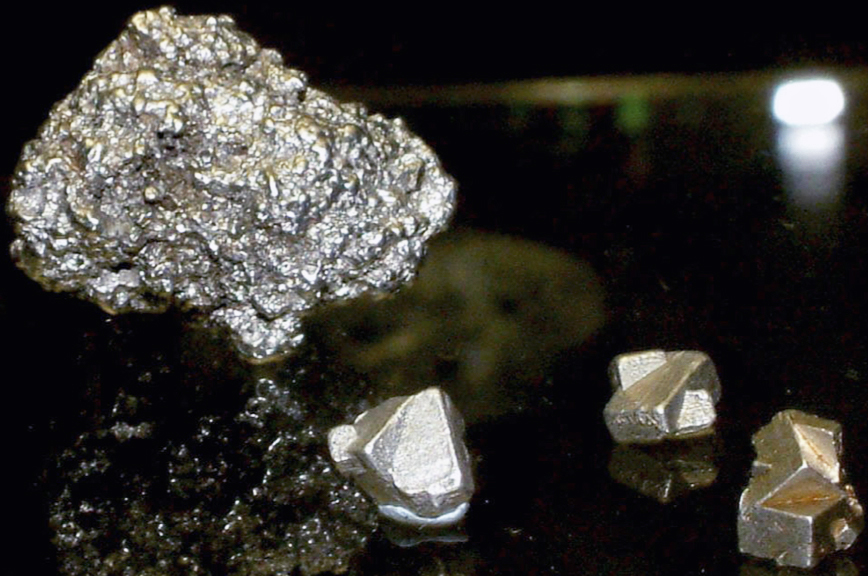 Platinum mass & well-formed crystals from Russia. (public display, Carnegie Museum of Natural History, Pittsburgh, Pennsylvania, USA) A mineral is a naturally-occurring, solid, inorganic, crystalline substrance having a fairly definite chemical composition and having fairly definite physical properties. At its simplest, a mineral is a naturally-occurring solid chemical. Currently, there are over 4900 named and described minerals - about 200 of them are common and about 20 of them are very common. Mineral classification is based on anion chemistry. Major categories of minerals are: elements, sulfides, oxides, halides, carbonates, sulfates, phosphates, and silicates. Elements are fundamental substances of matter - matter that is composed of the same types of atoms. At present, 118 elements are known (four of them are still unnamed). Of these, 98 occur naturally on Earth (hydrogen to californium). Most of these occur in rocks & minerals, although some occur in very small, trace amounts. Only some elements occur in their native elemental state as minerals. To find a native element in nature, it must be relatively non-reactive and there must be some concentration process. Metallic, semimetallic (metalloid), and nonmetallic elements are known in their native state as minerals. Platinum (Pt) is far more valuable that gold, but it doesn't have a distinctive, prestigious color. Like most metals, platinum has a silvery color. Platinum, when purified, is heavier than gold, but specimen platinum has about the same specific gravity as gold nuggets (about 19). Platinum is alway found significantly alloyed with other elements, usually other PGEs (platinum-group elements: platinum (Pt), palladium (Pd), osmium (Os), iridium (Ir), rhenium (Re), rhodium (Rh), ruthenium (Ru)). Platinum is typically found in Precambrian ultramafic igneous rocks, but there are also some Pt-bearing placer deposits in Canada, Colombia, and Russia.